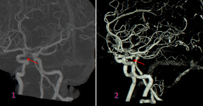 edit Volume rendered CT angiography of posterior communicating artery aneurysm.png. For context, see Wikipedia:Imaging in stroke.